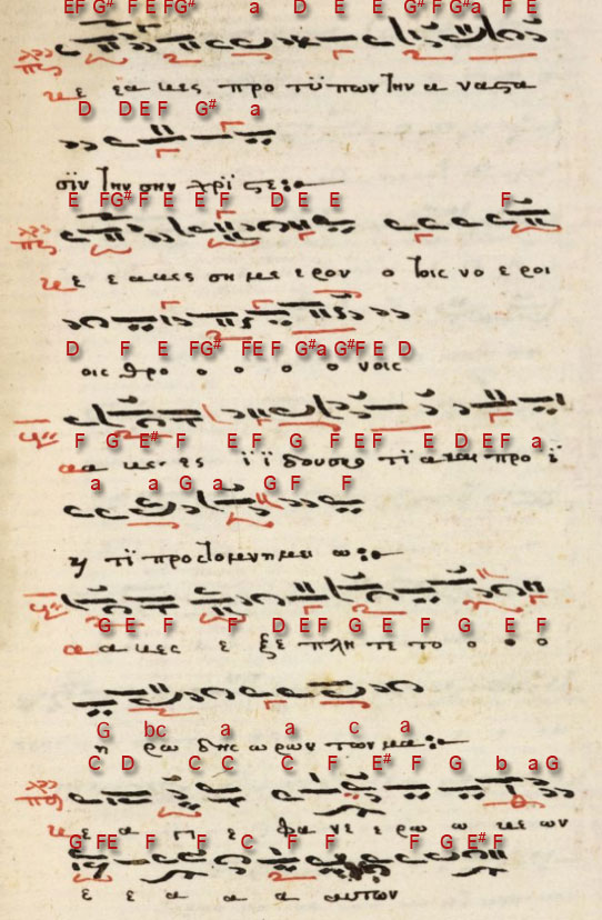 Transcription of chant manuscript (standard intonations of the papadike treatise)